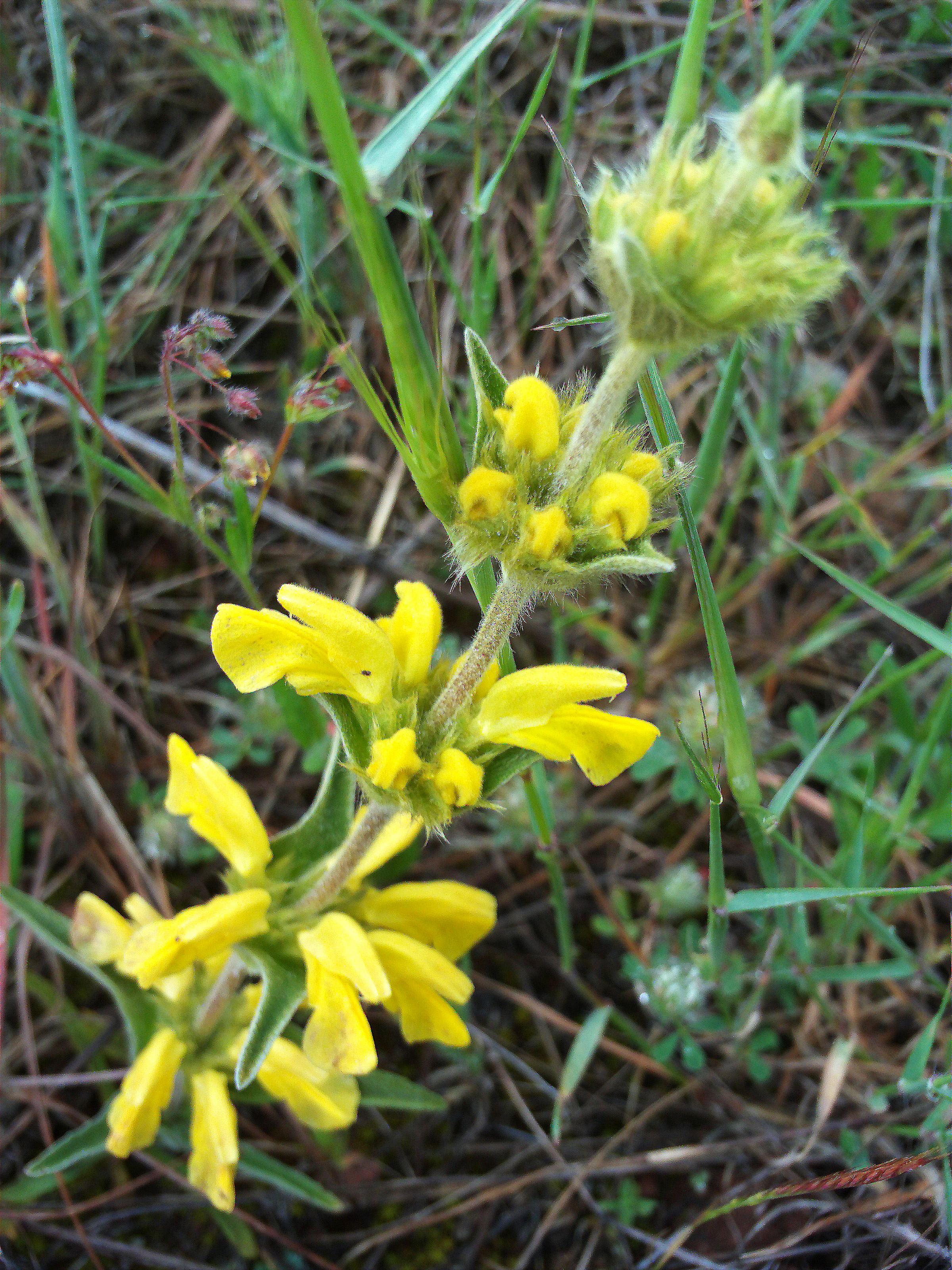 Phlomis lychnitis flowers close up, Dehesa Boyal de Puertollano, Spain